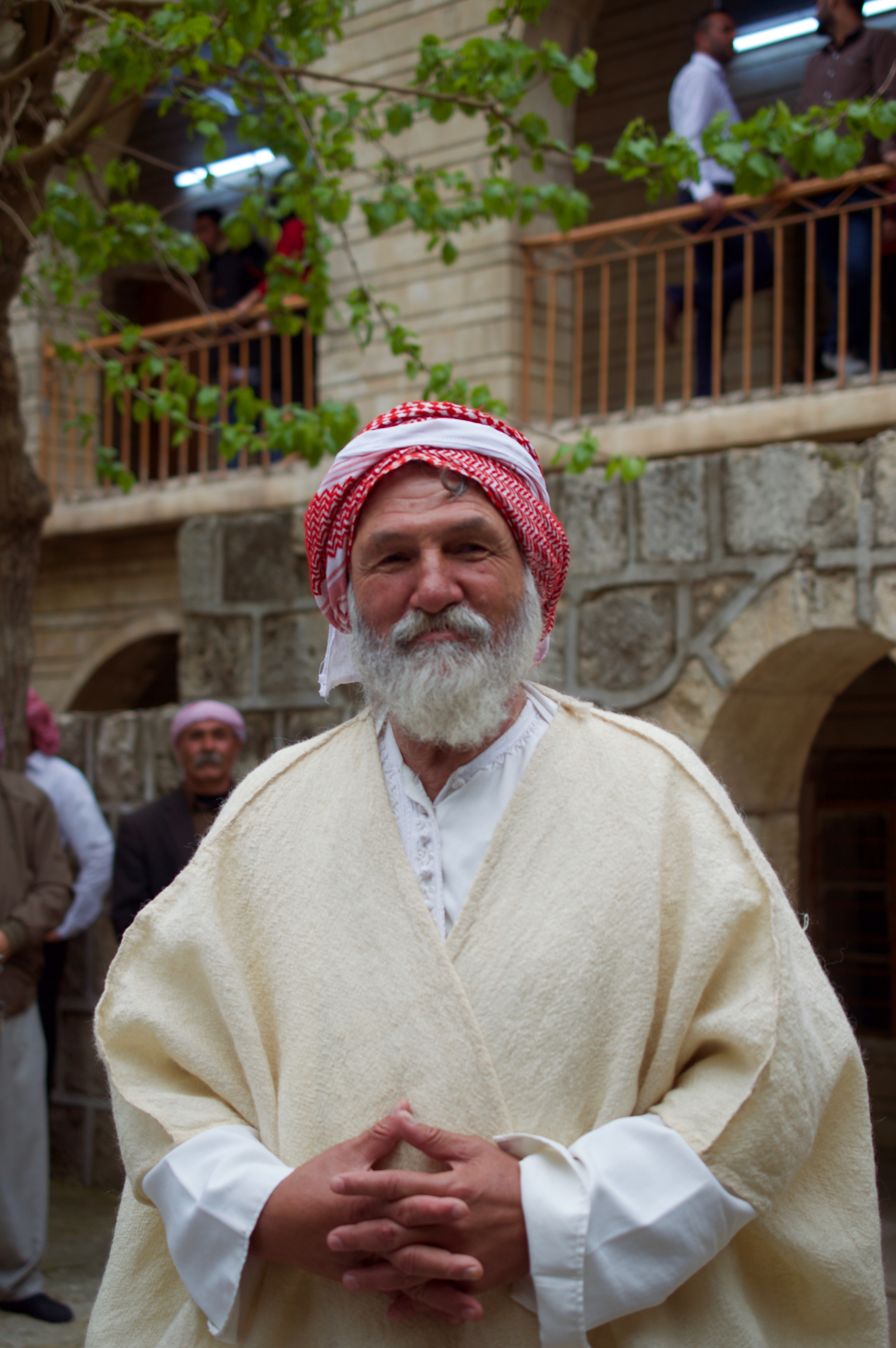 Celebrating the Yezidi (Ezidi) New Year on 18 April 2017, the evening before the start of the new year.